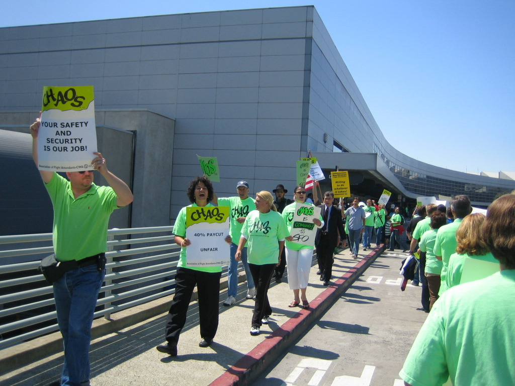 AFA Flight Attendants picketing Northwest Airlines at the San Francisco International Airport August 15, 2006